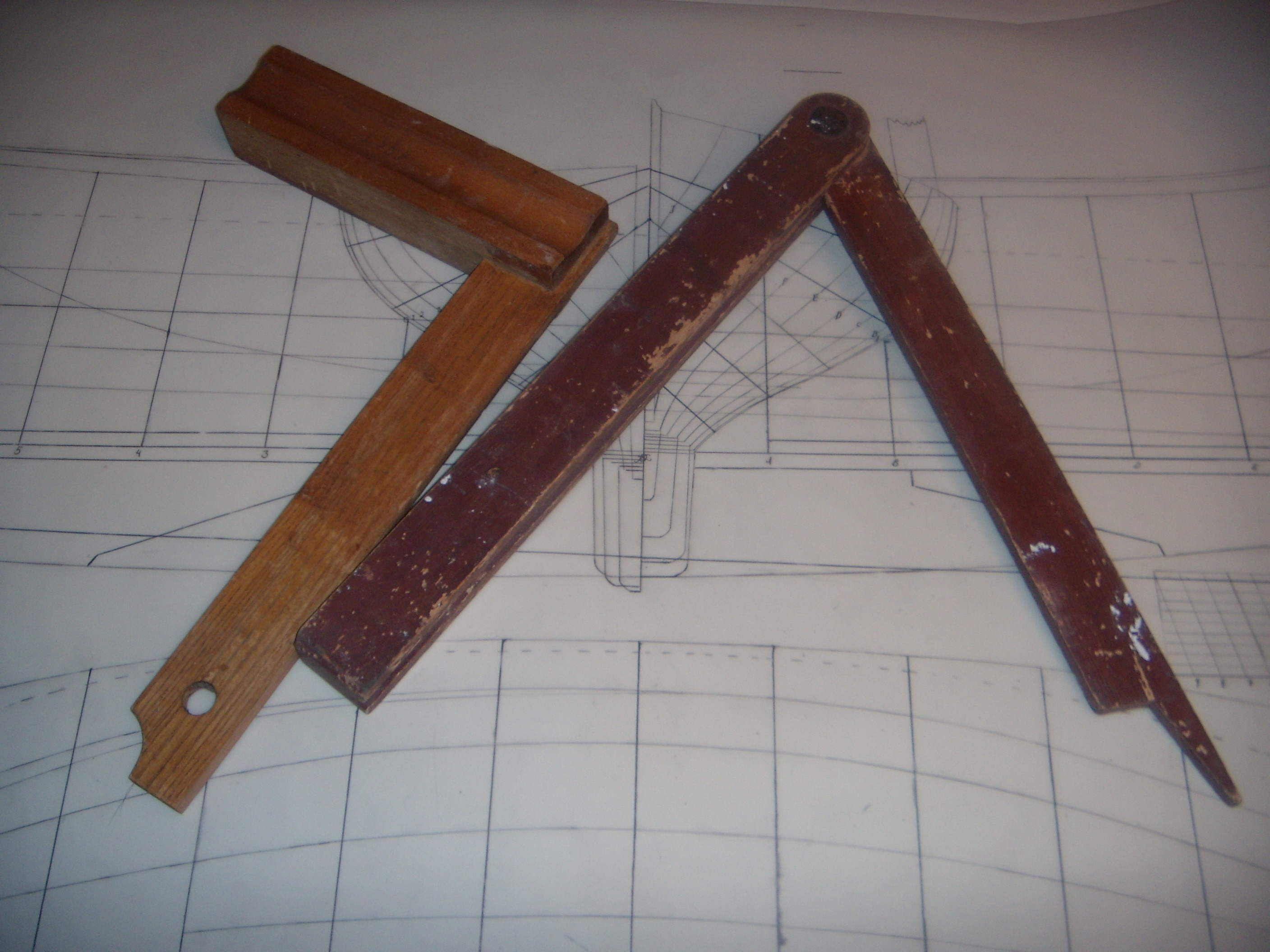 squares in wood.